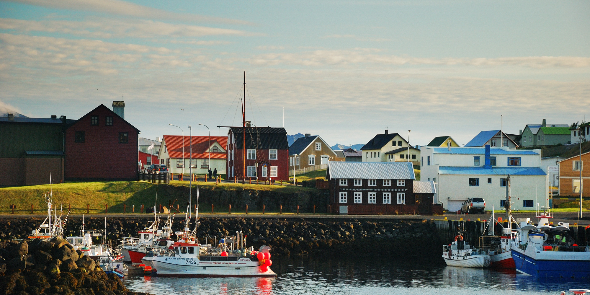 Stykkisholmur / Snaefellsness Peninsula / Iceland